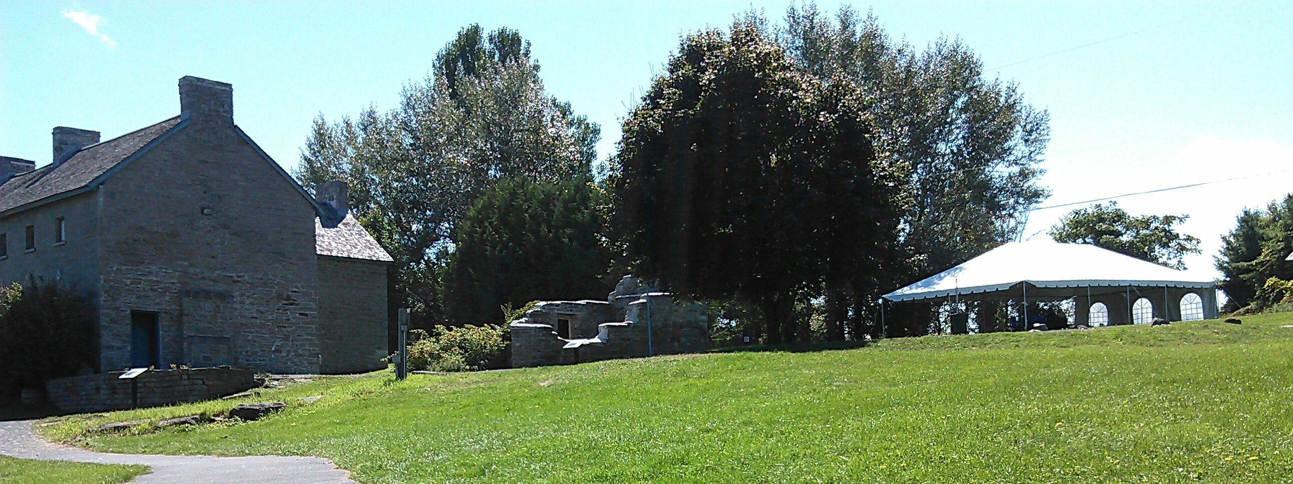 Outbuilding, Pinhey Homestead, erected c. 1825, March Township, Carleton County, Ontario. June 8, 1925. Now in the Kanata community of Ottawa, Ontario, Canada